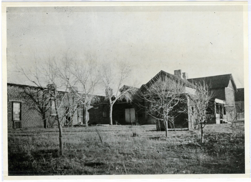 Empire Ranch, Arizona — circa 1900.